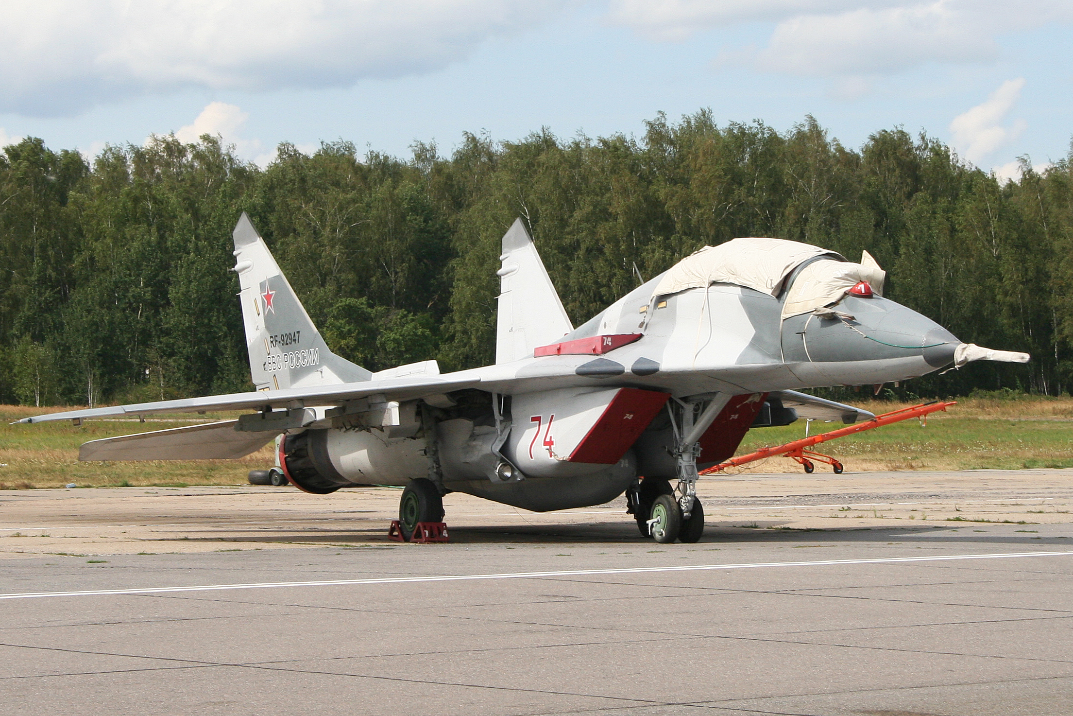 Operated by 7000 AvB / 5 AvGr, Russian Air Force and based at Kursk. Deployed to Chkalovsky to take part in the Russian Air Force 100th Anniversary celebrations held at Zhukovsky. This aircraft formed part of a giant '0' shape as part of a '100' formation flyby. Parked on a taxiway near the ramp usually used by the based IL-80 airbourne command post aircraft. Chkalovsky Air Base, Russia. 13-08-2012